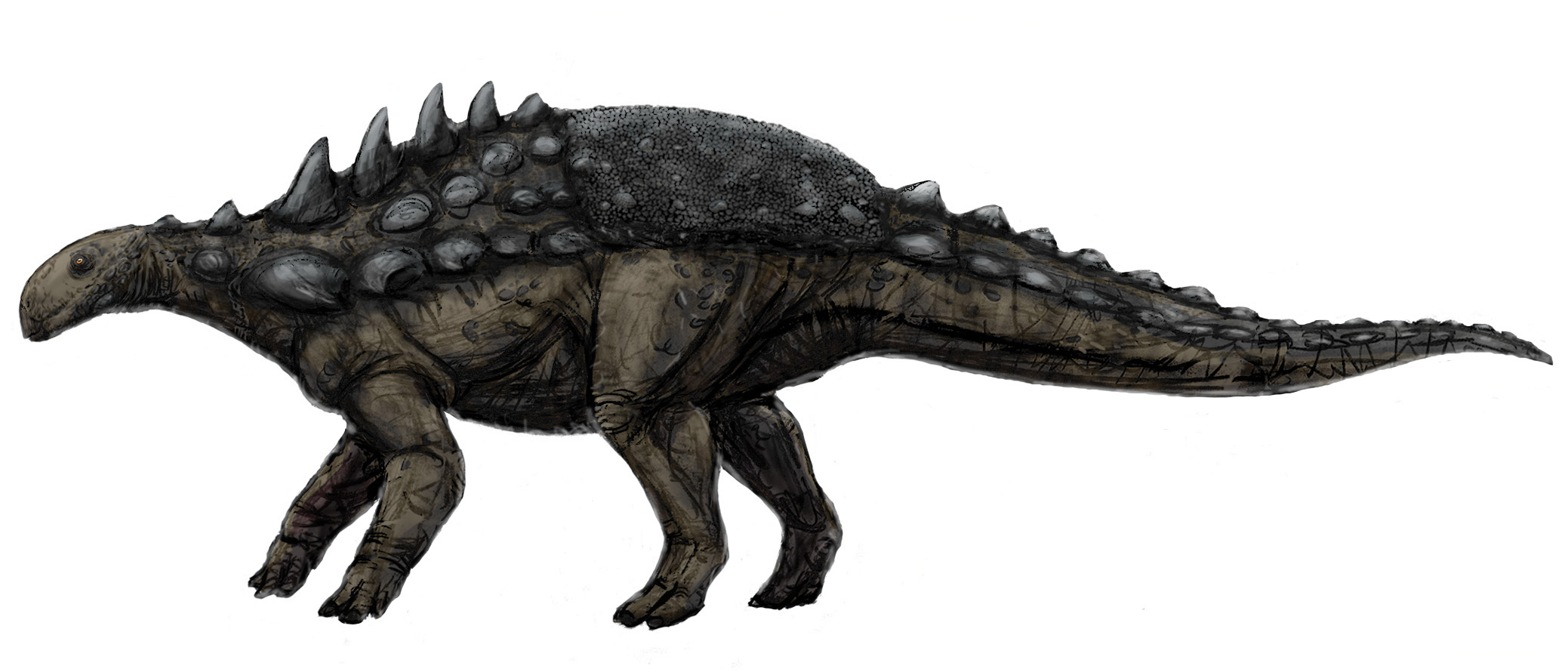 Hypothetical Polacanthus foxii restoration, based mostly on Gastonia.